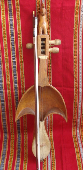 Tribal fiddle instruments called "Dhodro Banam" used by Santhal people in Eastern India.